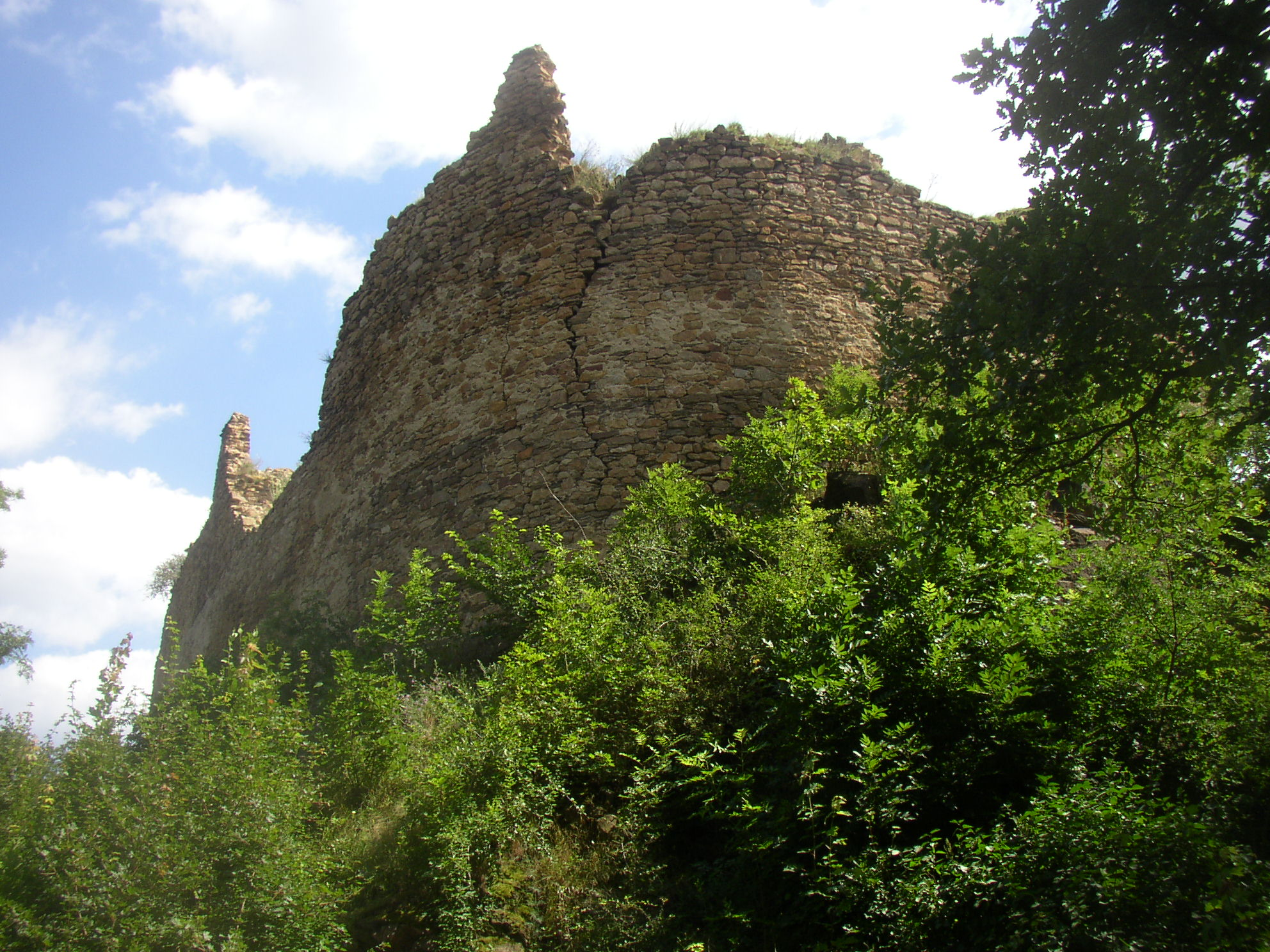 Ruins of Opárno Castle, Litoměřice District, Czech Republic. A view from southwest.